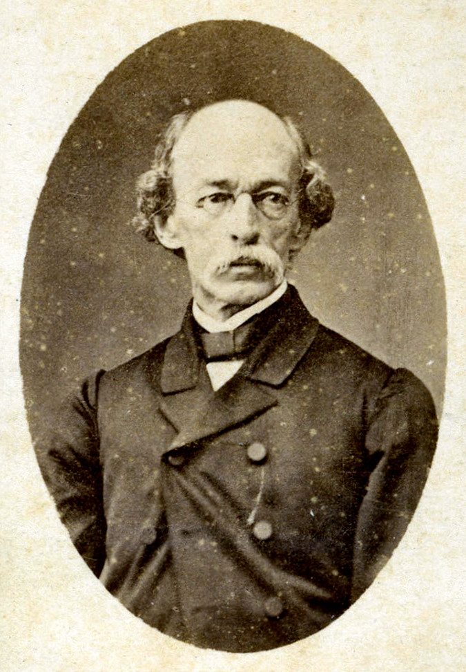 Photograph of Manuel Ancízar, Colombian lawyer, journalist, writer and diplomat.